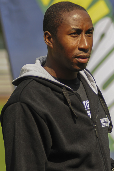 Picture of athlete, Robert Esmie. Wilson Wong photo.